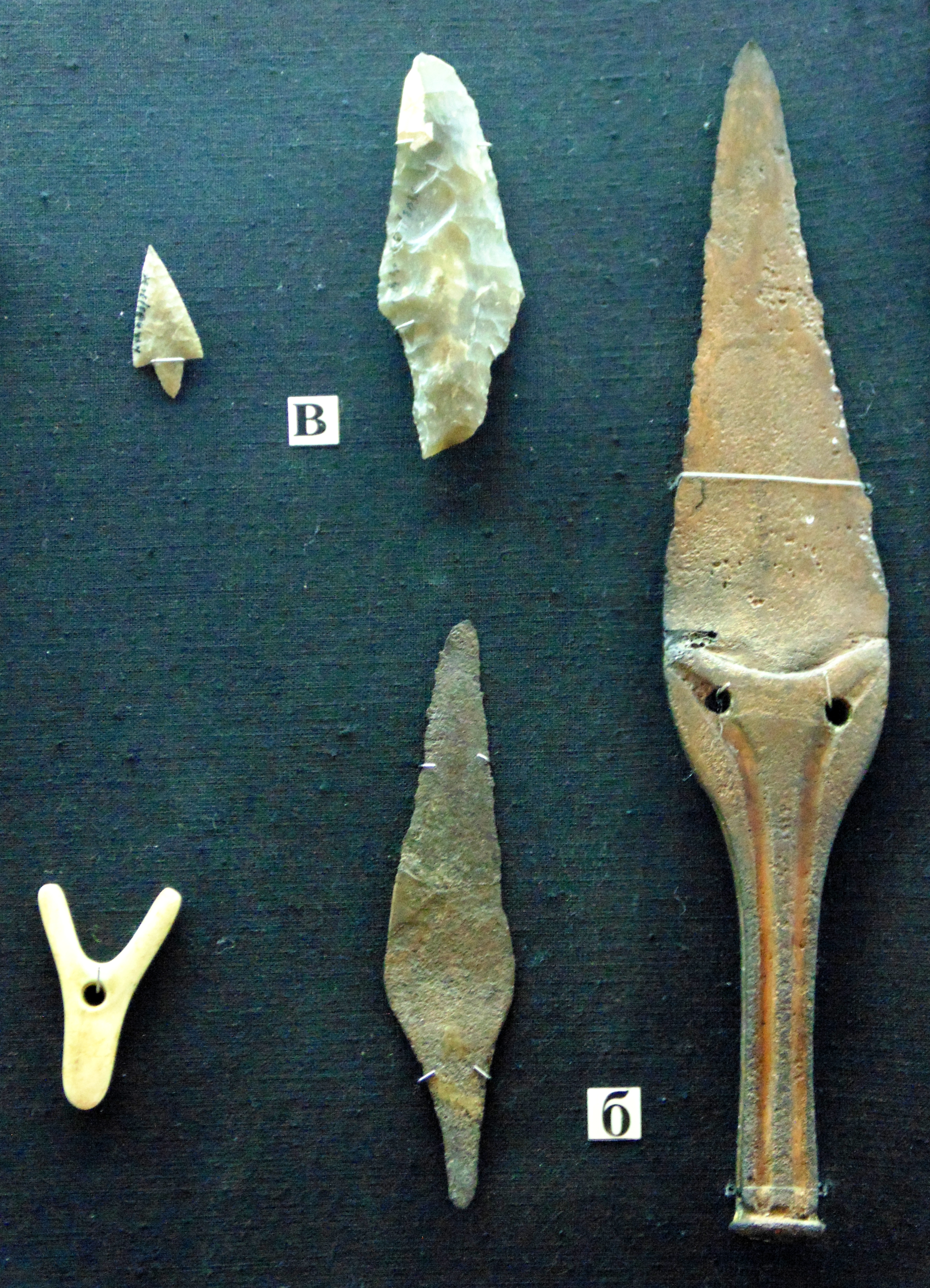 Bone and bronze arrowheads of Yamna culture